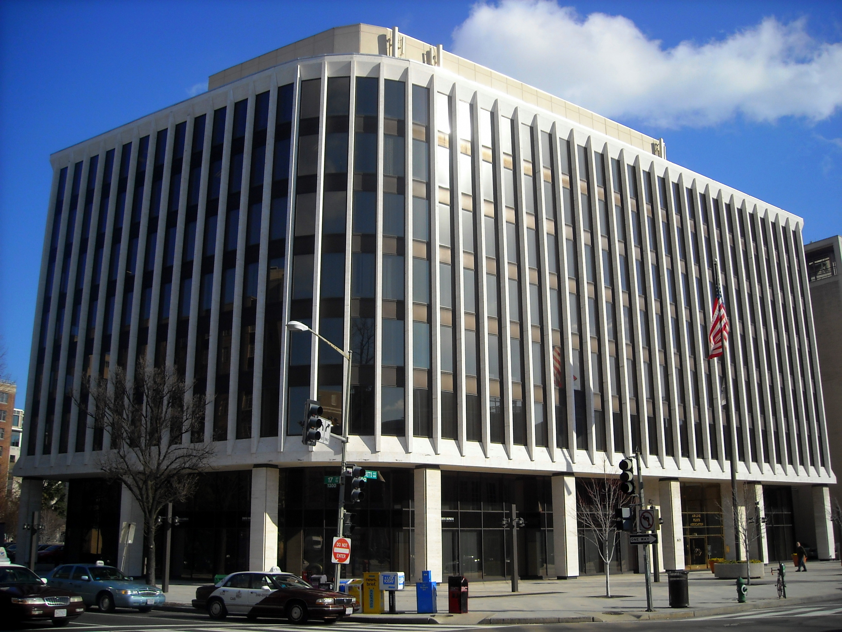 The Air Line Pilots Association Building located at 1625 Massachusetts Avenue, NW in the Dupont Circle neighborhood of Washington, D.C. In addition to the ALPA, notable tenants include the Johns Hopkins University Carey Business School, Earthjustice, and Vital Voices Global Partnership. Notable past tenants include the Democratic National Committee and Association of Flight Attendants.